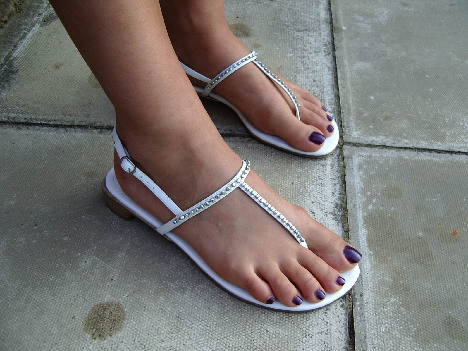 Didi wearing simple wedge heel thong sandals